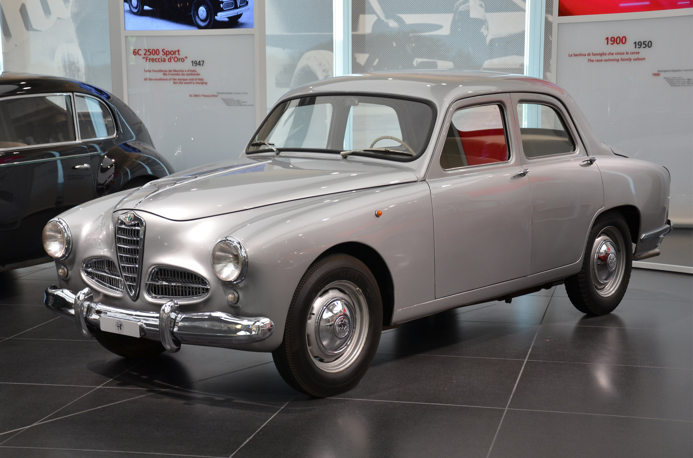 Alfa Romeo 1900 on display in the Museo Storico Alfa Romeo.